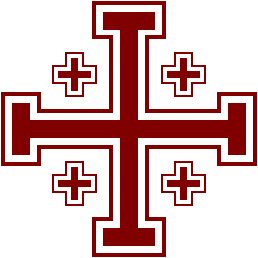 Created by myself.